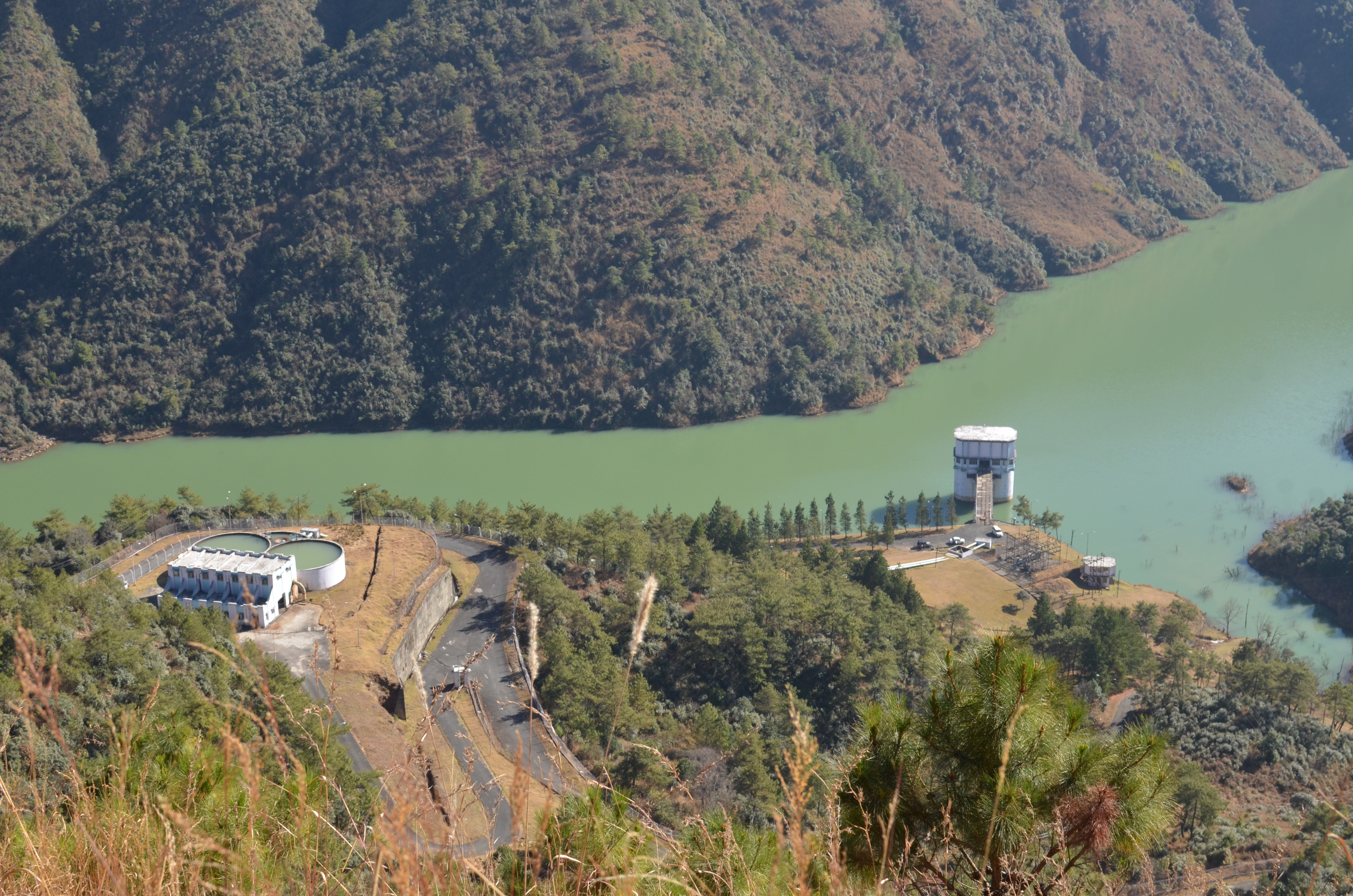 This hydro electic dam supplies electricity to shillong town. The water bore a beautiful green color.